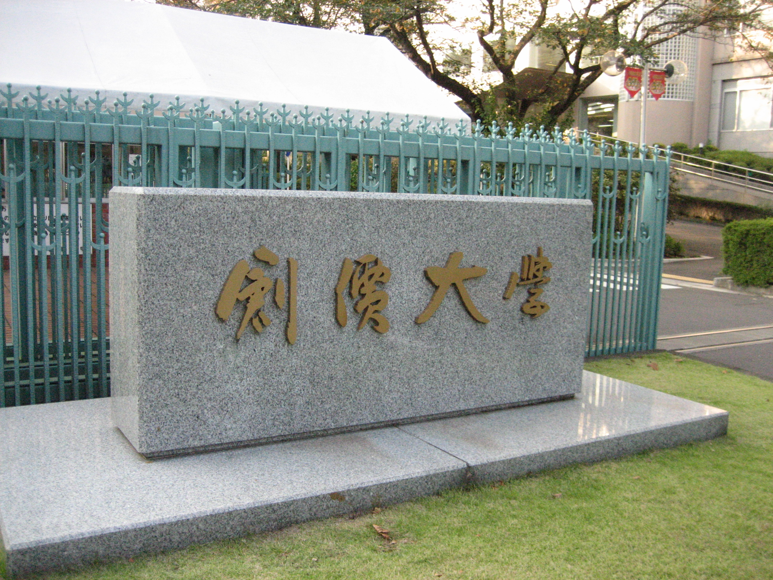 Soka University, Hachioji City, Tokyo, JAPAN